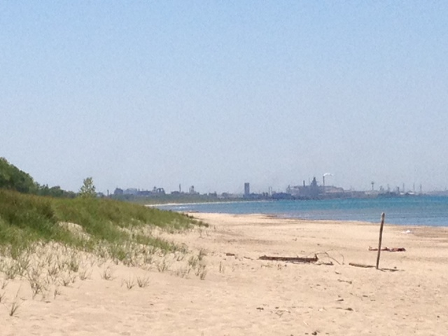 Miller Beach in Gary, Indiana